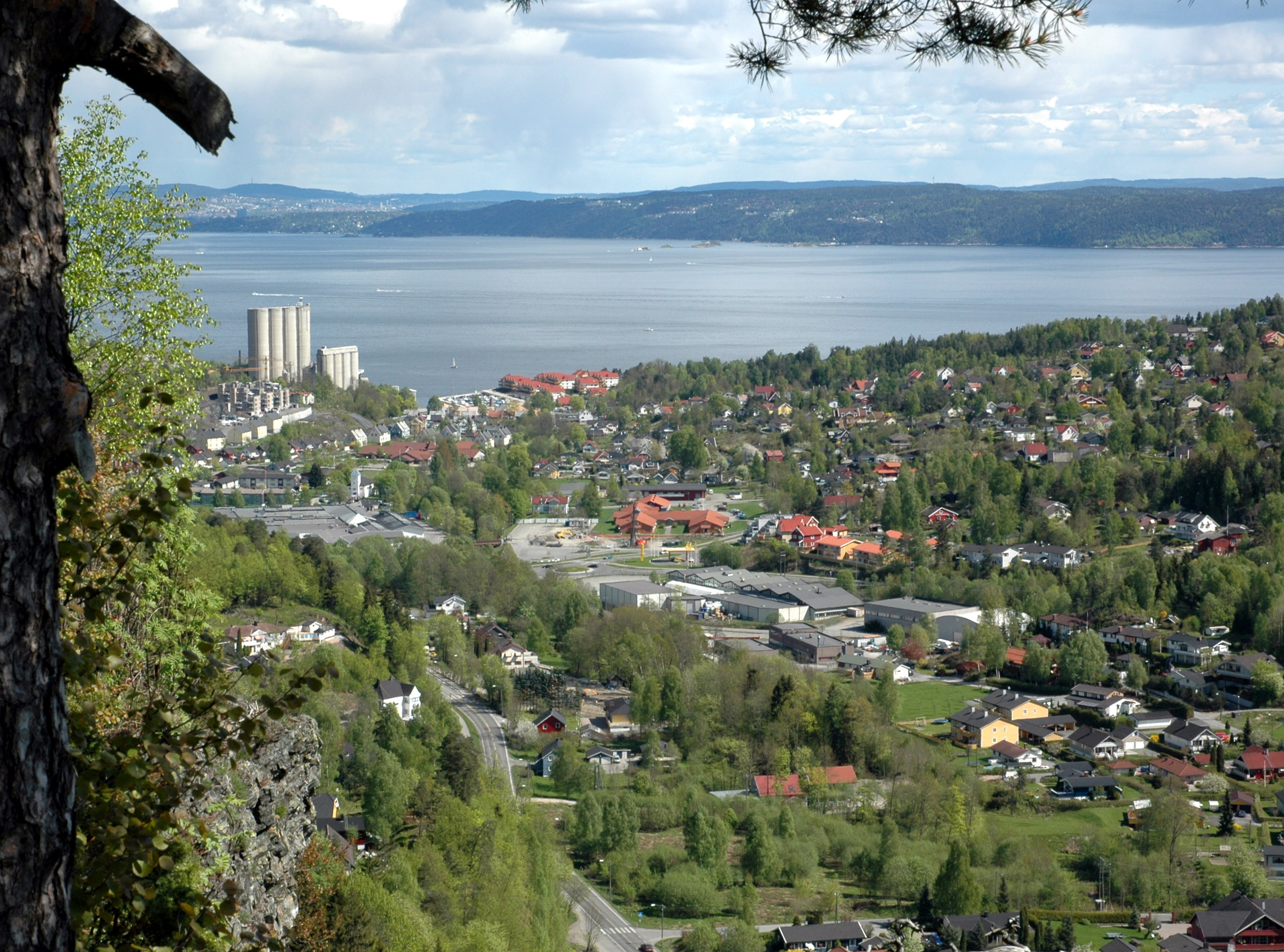 The hamlet of Slemmestad, Norway, seen from the hill Bøsnipa. Picture taken looking east, with Oslo seen in the distance, across the Oslo fjord.